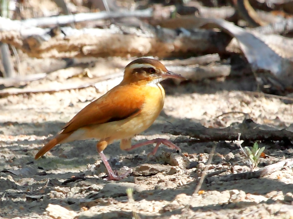 Pale-legged hornero; Riachuelo, Rio Grande do Norte, Brazil